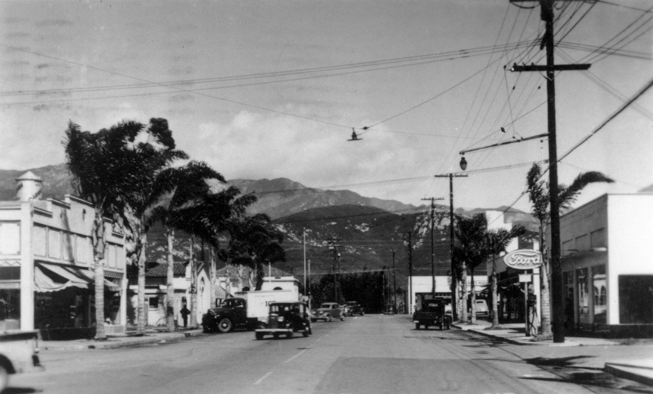 Photo of upper Linden Avenue looking North